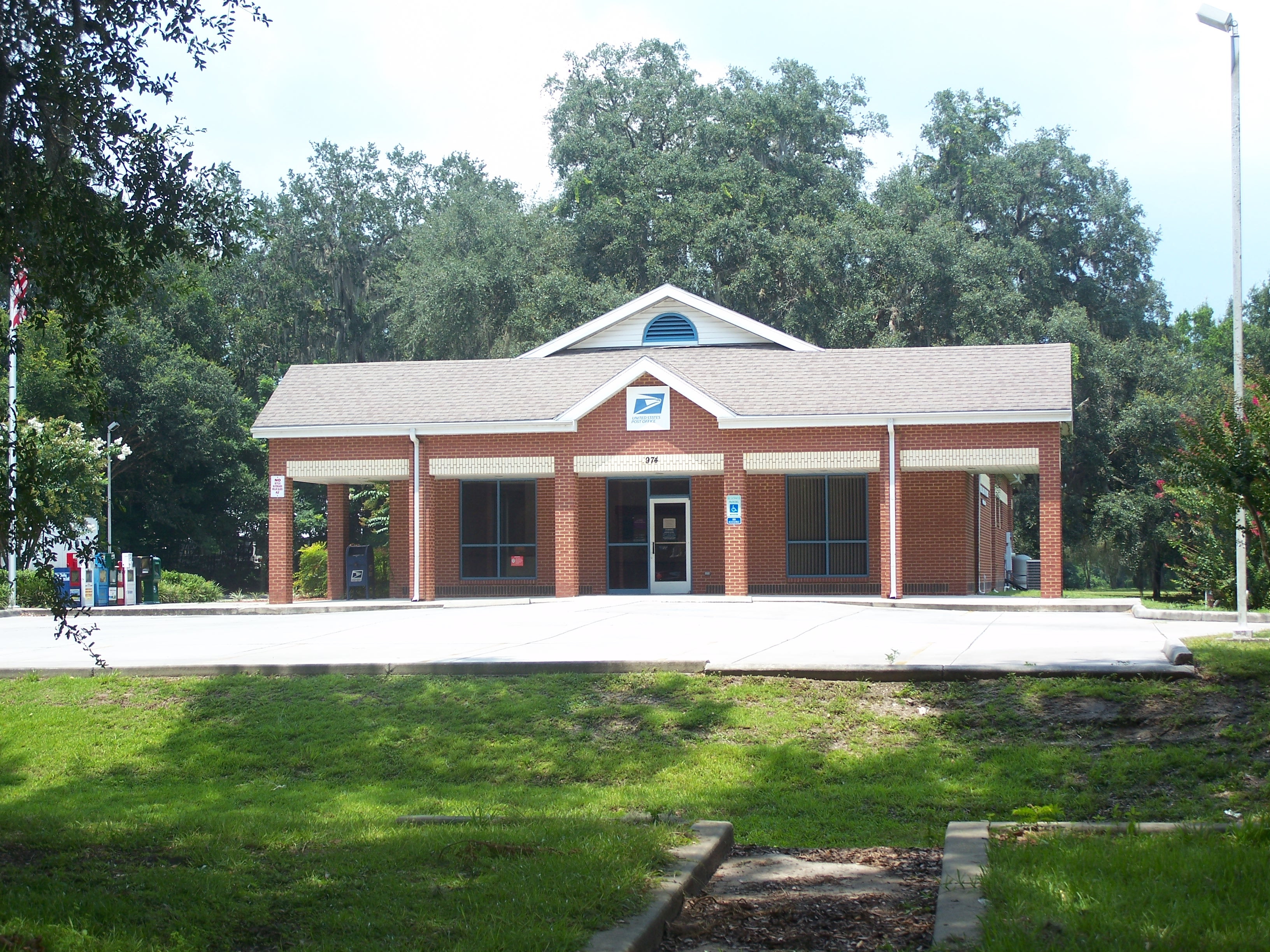 Oxford, Florida: Local post office.